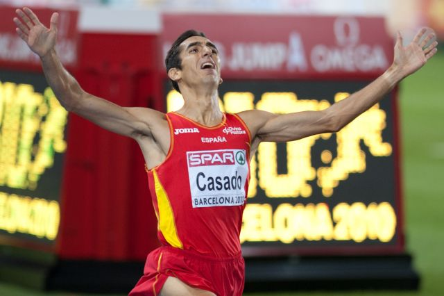 Arturo Casado at the 2010 European Athletics Championships in Barcelona